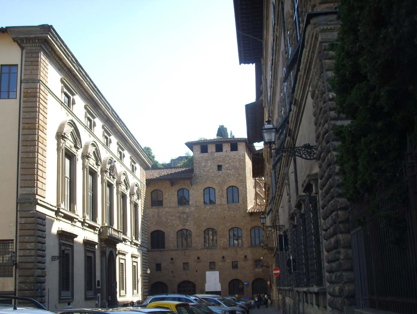 Piazza dei Mozzi in Florence, Italy. In the background, Palazzo dei Mozzi (13th/14th century).